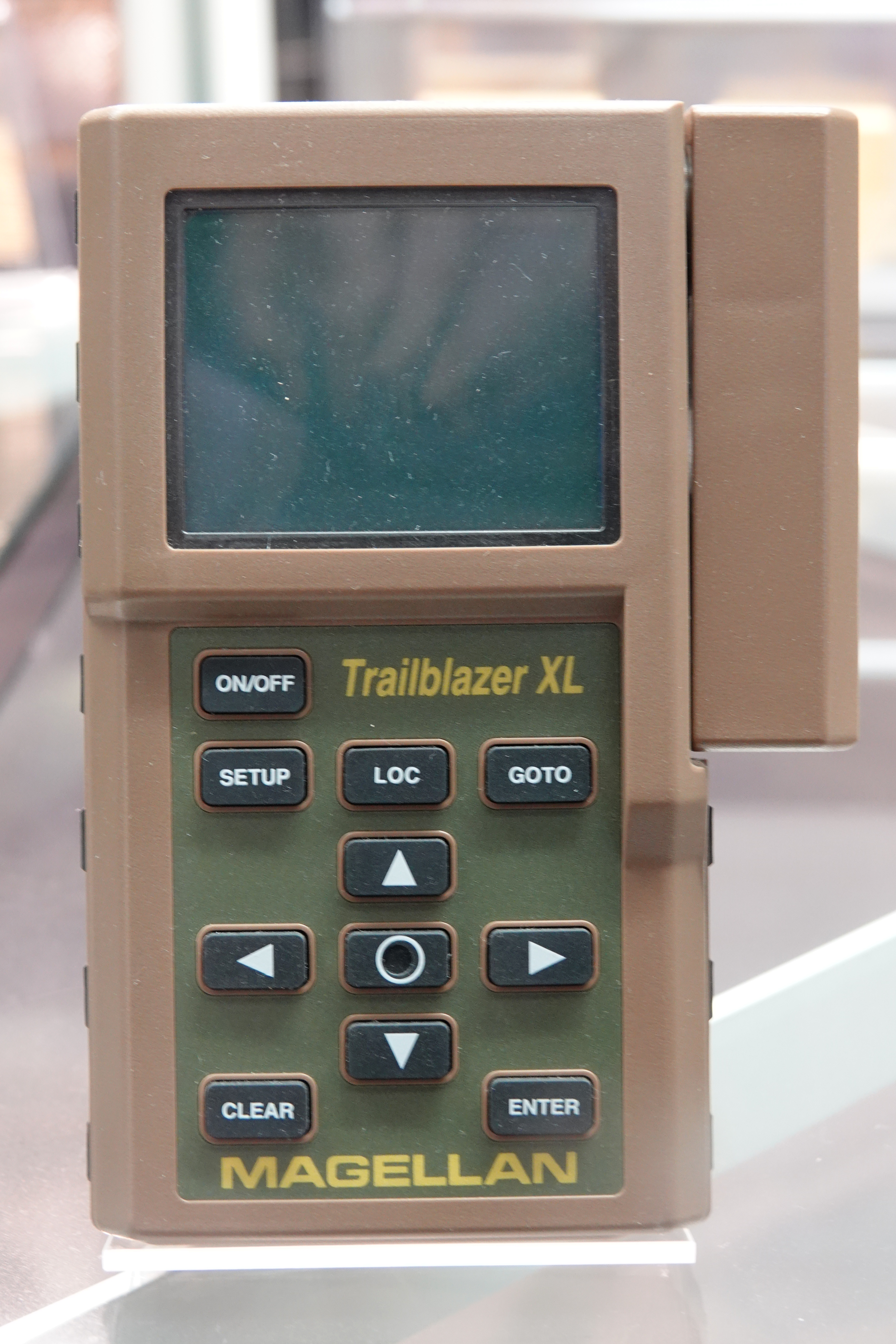 The Magellan Trailblazer XL is an early commercial handheld Global Positioning System (GPS) receiver. Using GPS satellite signals, the device can locate the user’s position anywhere on Earth. Picture taken at the National Air and Space Museum's Steven F. Udvar-Hazy Center in Chantilly, Virginia, USA.